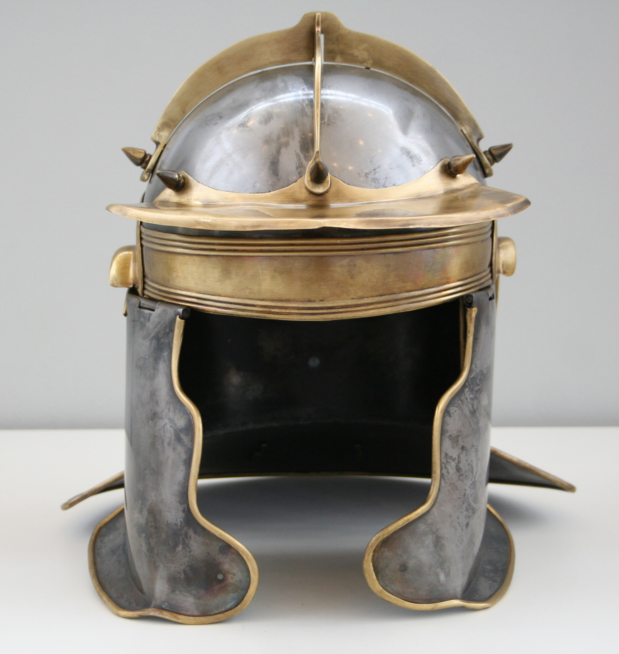 roman helmet of type Niederbieber (replica); Braunschweigisches Landesmuseum